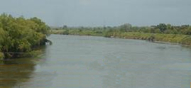 aereal view of the ulua river